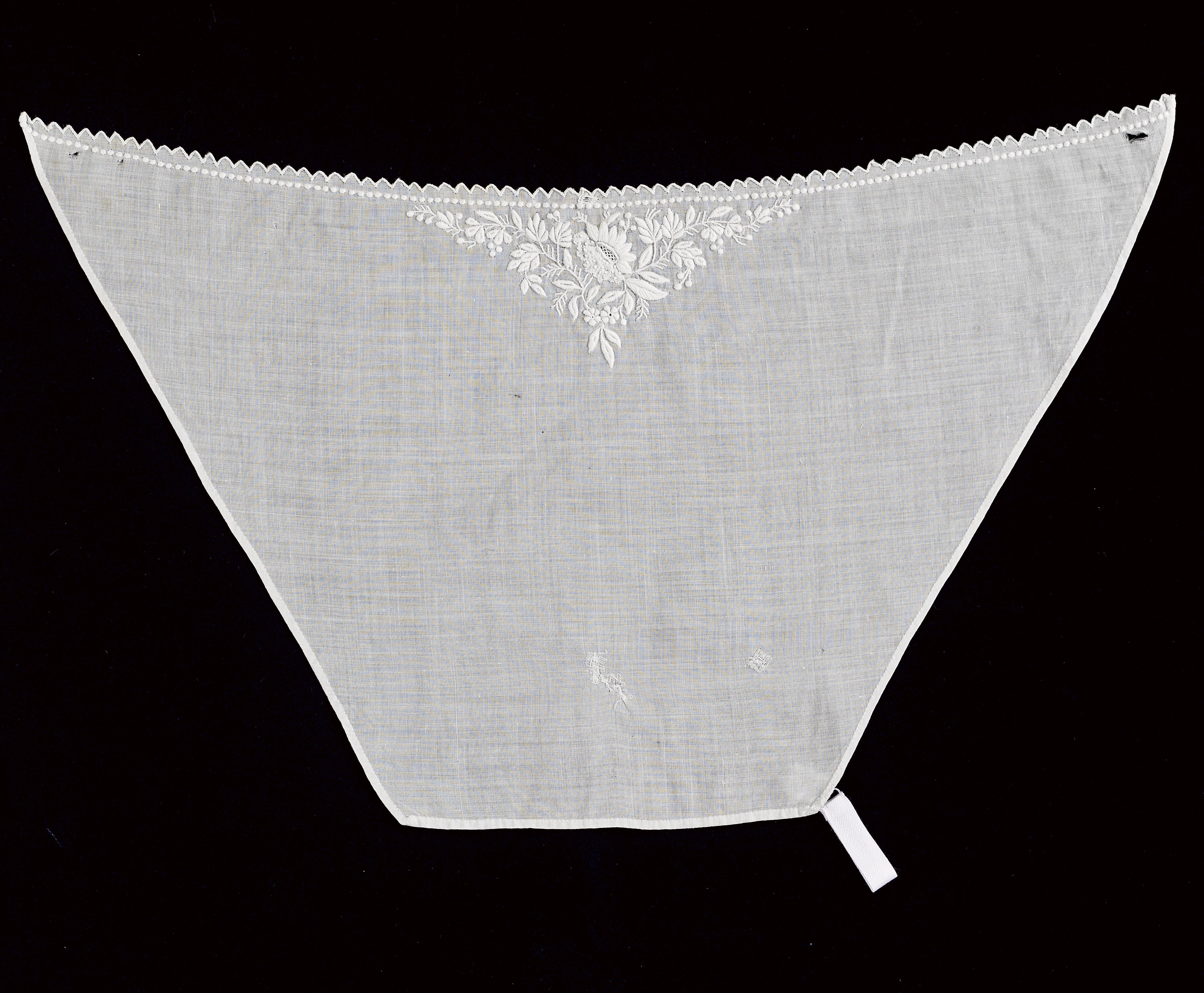 Costume Accessory-Modestie